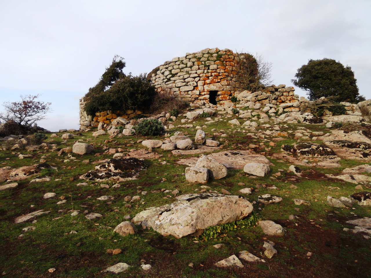 Nuraghe Elighe Onna, Santu Lussurgiu